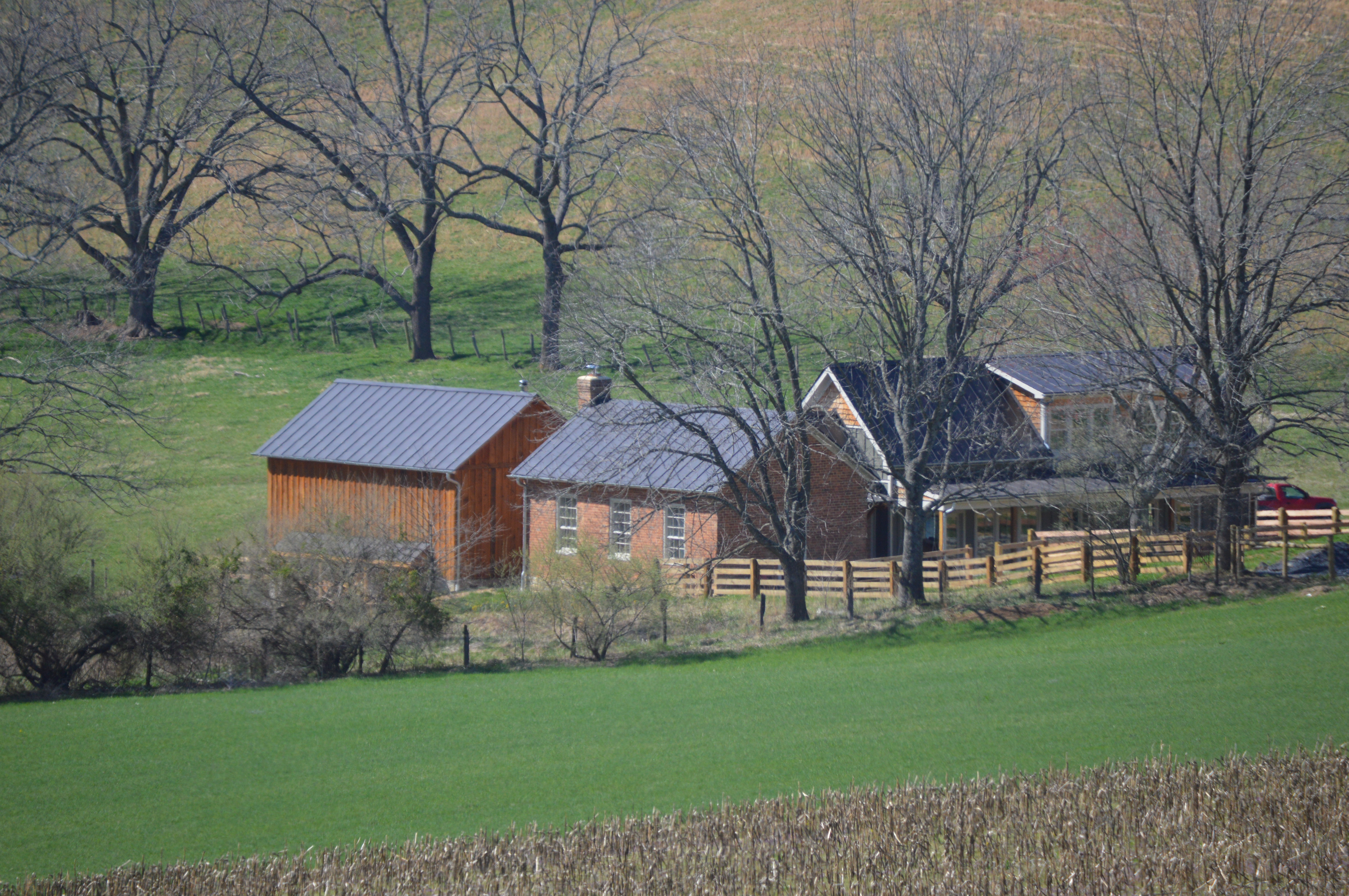 Distant view from the southeast of the Glebe Schoolhouse, located on Glebe School Road northeast of Summerdean in Augusta County, Virginia, United States. Built in 1830, it is listed on the National Register of Historic Places.